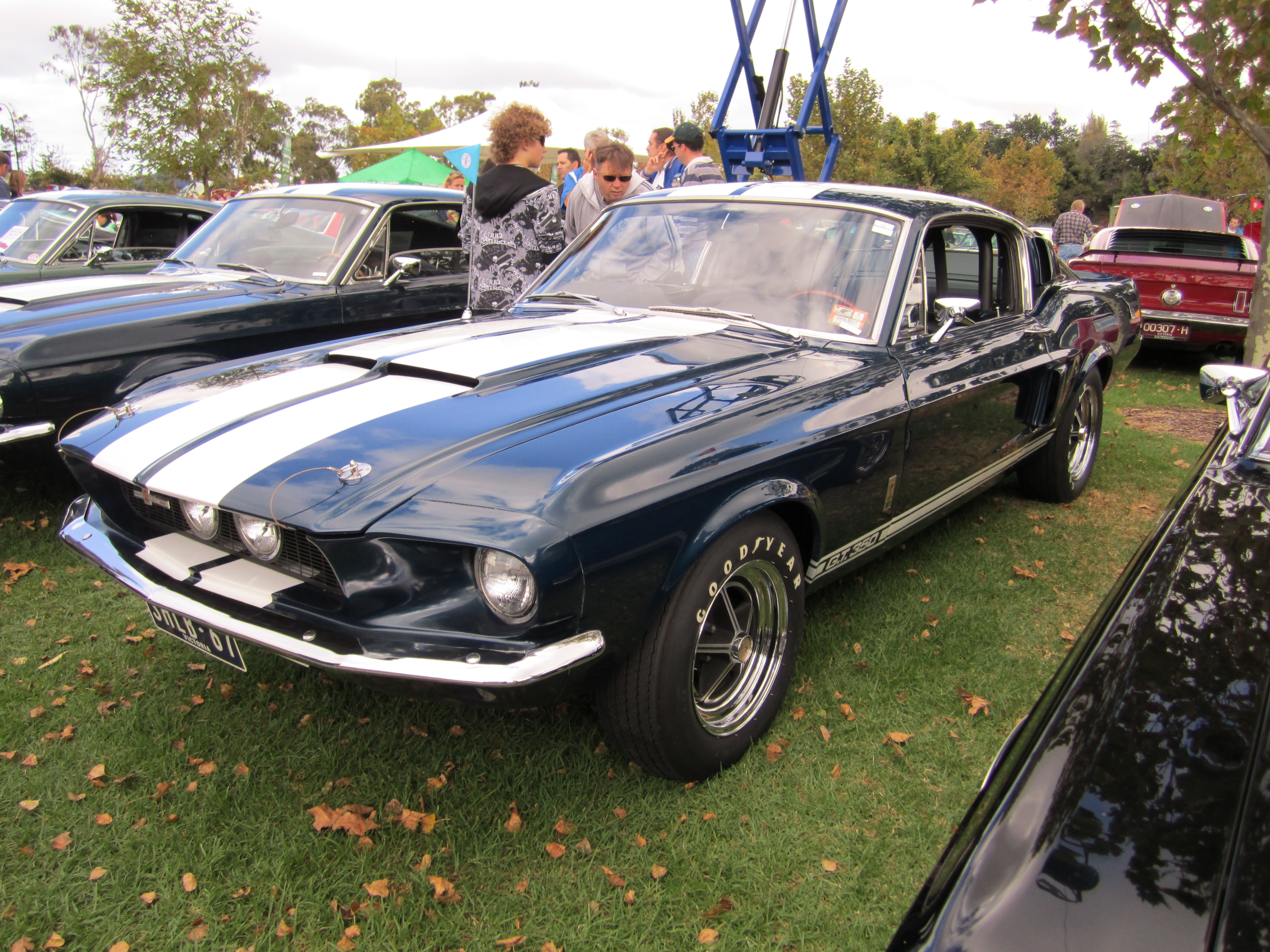 Nightmist Blue.